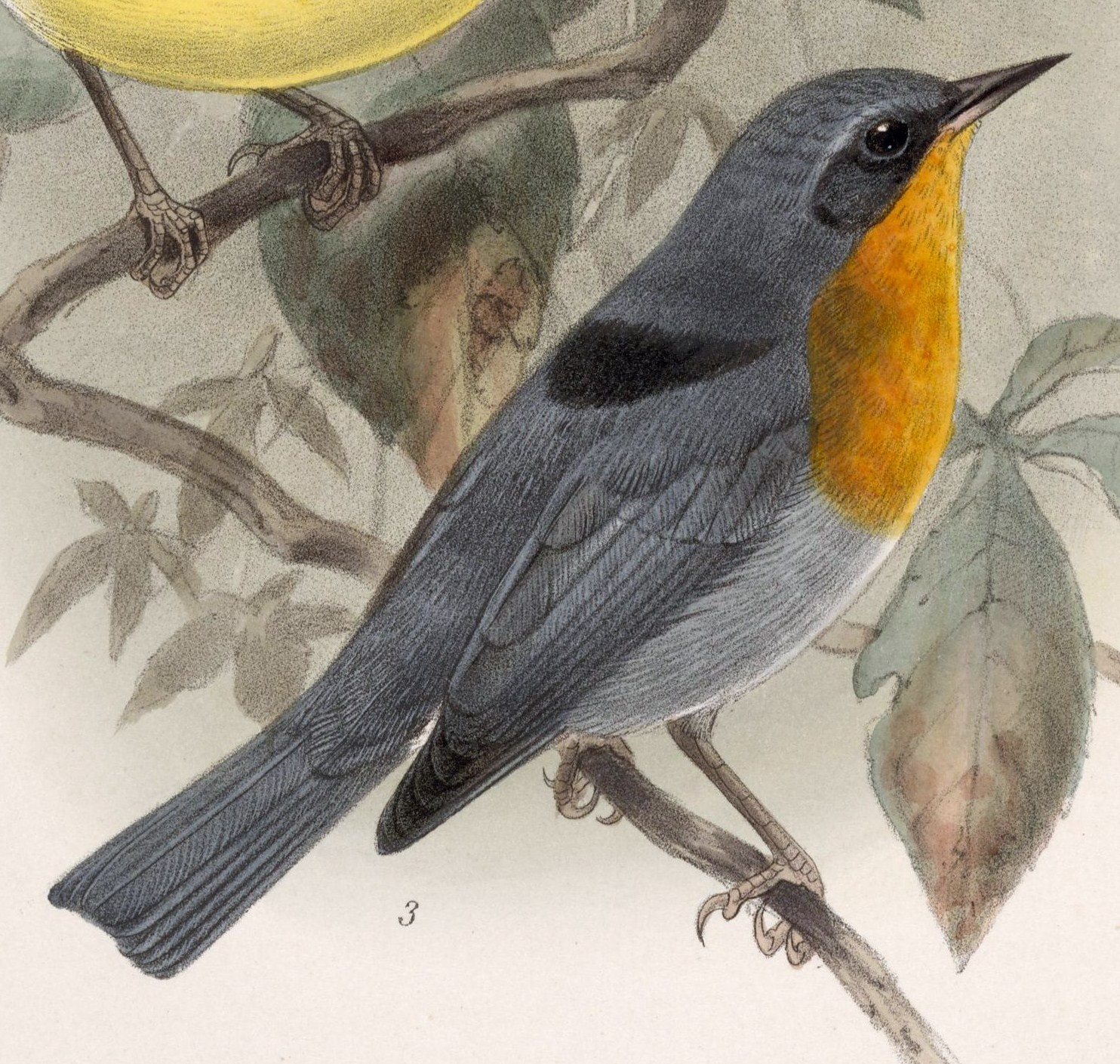 « Parula gutturalis » = Oreothlypis gutturalis (Flame-throated Warbler)